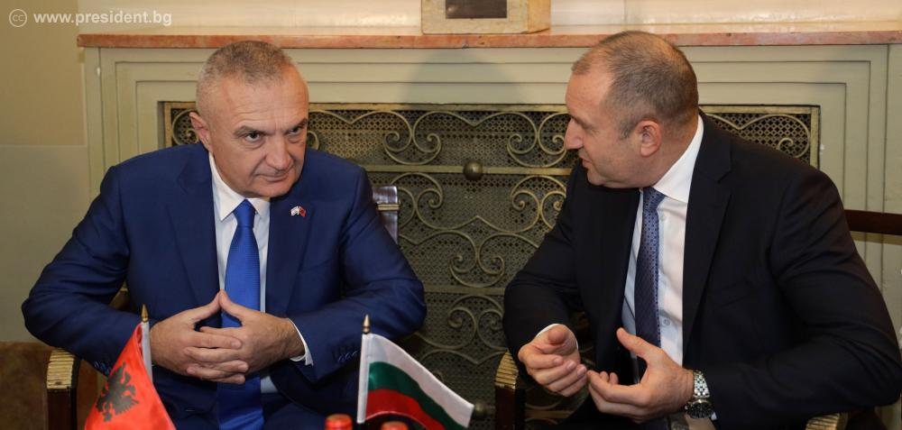 President Rumen Radev: The Western Balkans’ European Integration is Important not only for the Region, but also for the Whole of Europe.